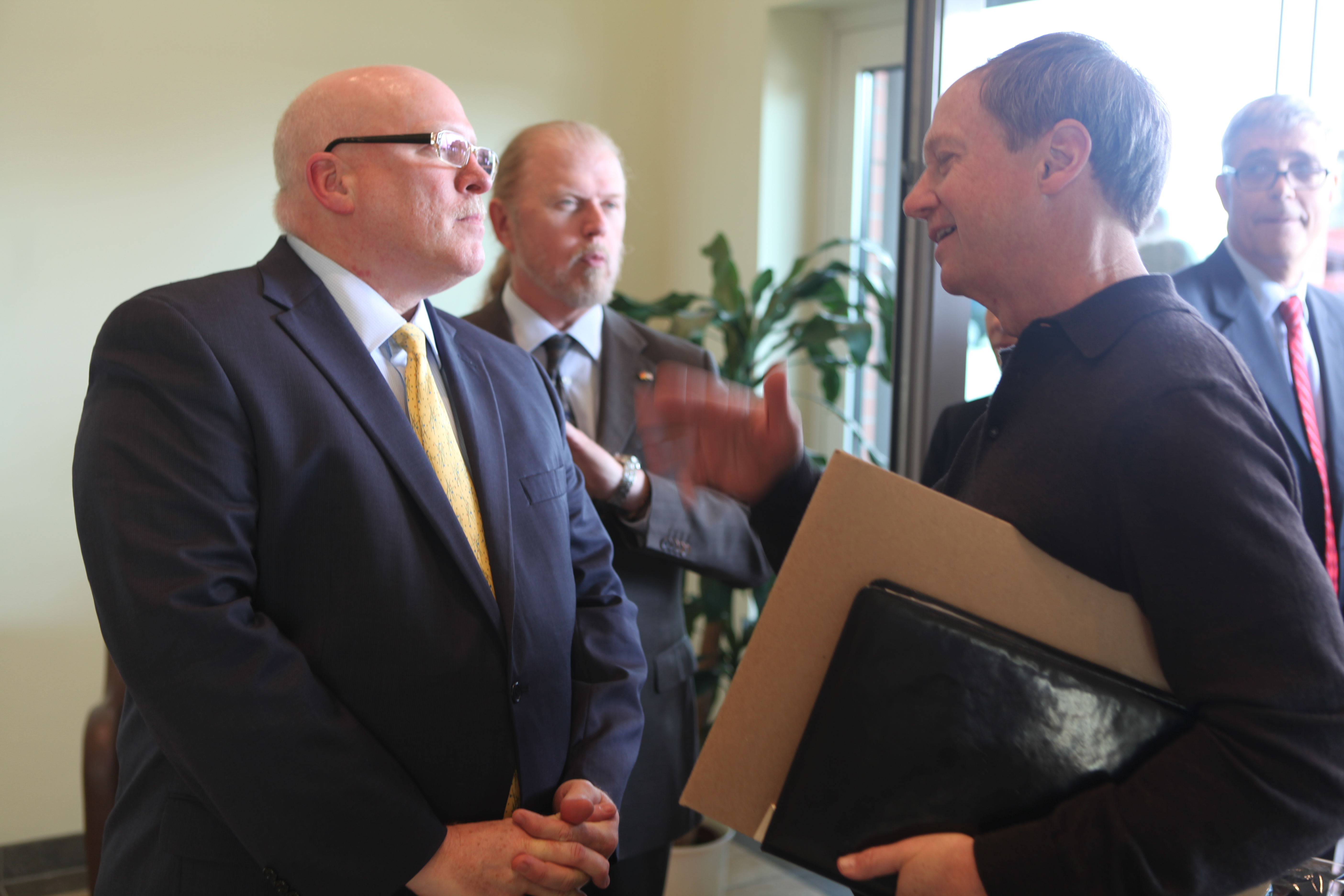 Ambassador-Designate John B. Emerson in conversation with Chargé d'Affaires James D. Melville jr.